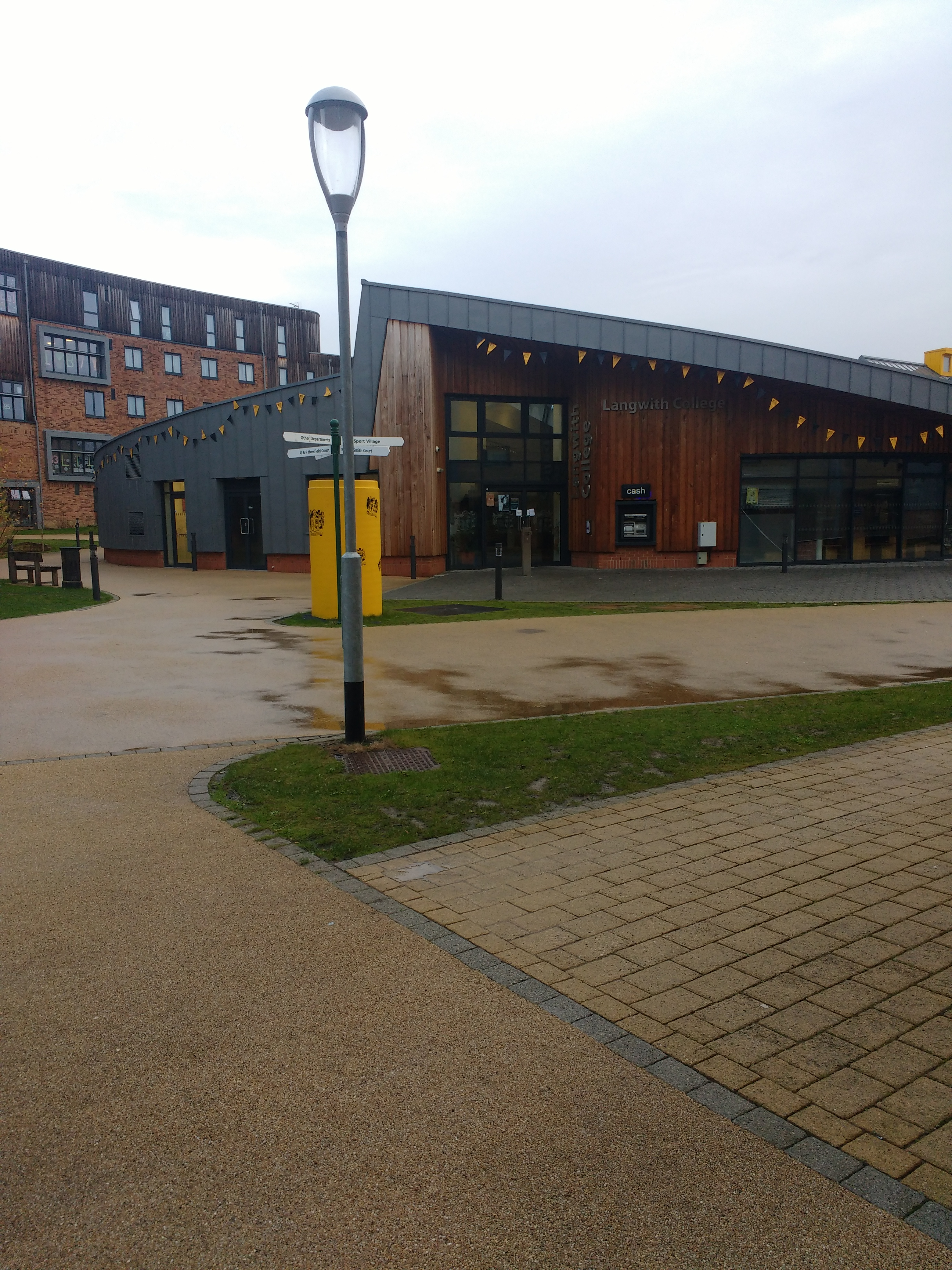 An image of the center building in Langwith College at the University of York. Taken by Thing789 on November 2015. Used on the article - Langwith College